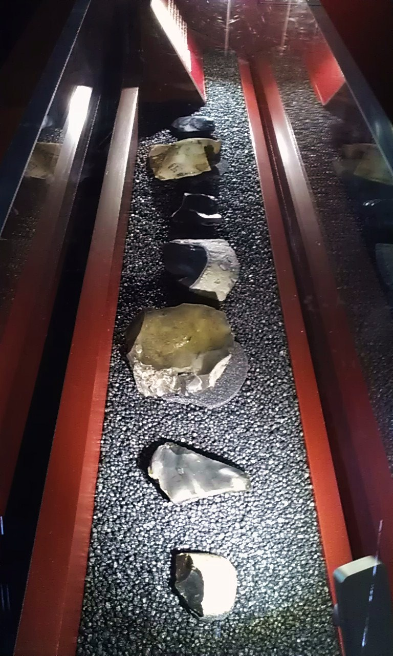 Palaeolithic stone tools excavated at Happisburgh, Norfolk, which constitute the earliest examples of tools found in Britain. Image taken when they were exhibited at the Natural History Museum in Summer 2014.